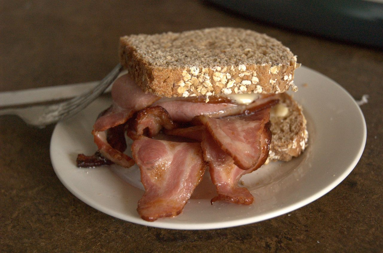 An impressive Bacon Butty.